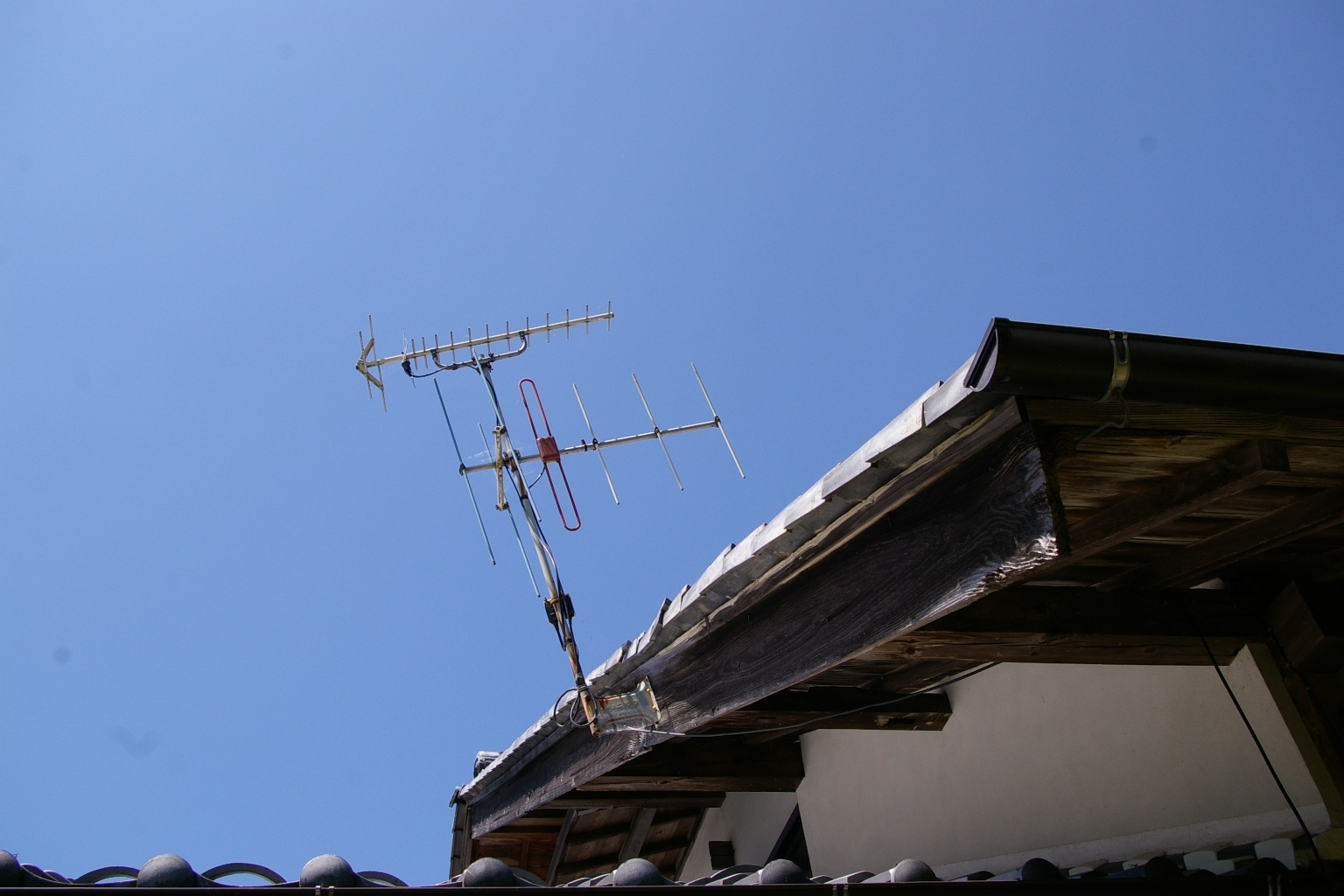 TV Antenna of VHF, UHF